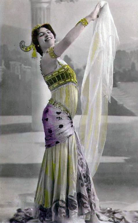 Postcard of Mata Hari in Paris